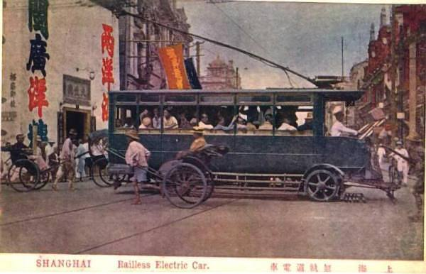 A postcard of an early AEC trolleybus on the Shanghai trolleybus system.